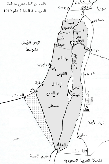 Palestine as claimed by the World Zionist Organization in 1919 at the Paris Peace Conference.